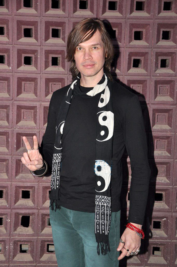 Luke Kenny at Soulmate performance